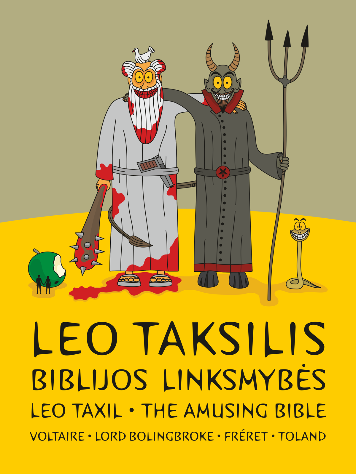 Leo Taxil - The Amusing Bible - Lithuanian Cover